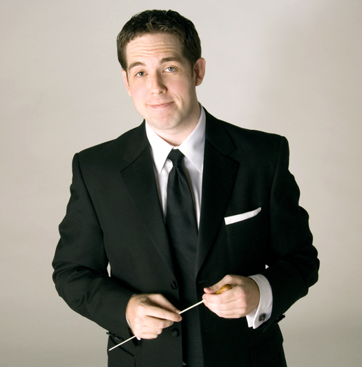 Brett Mitchell headshot